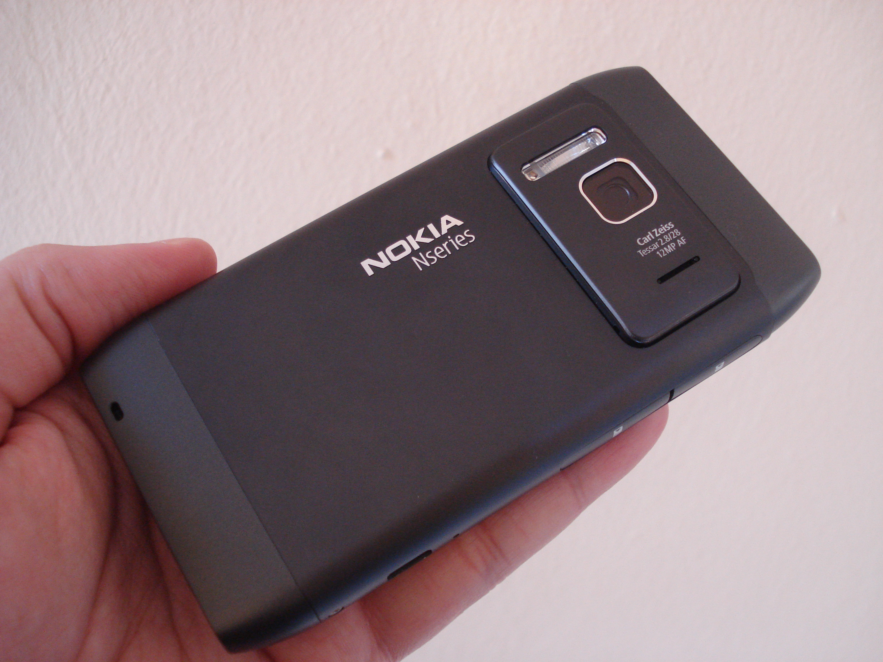 Nokia N8 hands on.